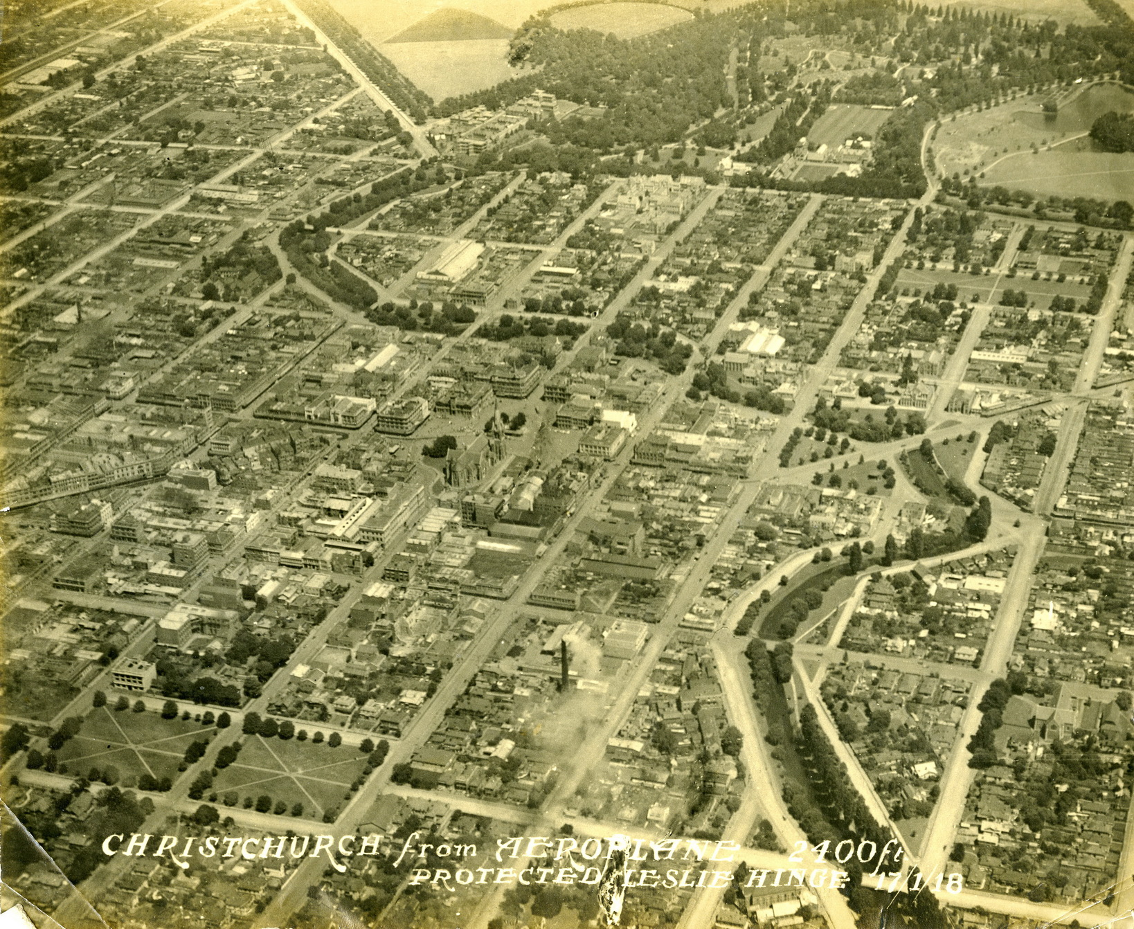 Christchurch from aeroplane, 2400ft, 17 January 1918 (First aerial photograph taken over Christchurch) Archives reference: ACCT 8031 W4031 Box 5/15 Material from Archives New Zealand Te Rua Mahara o te Kāwanatanga